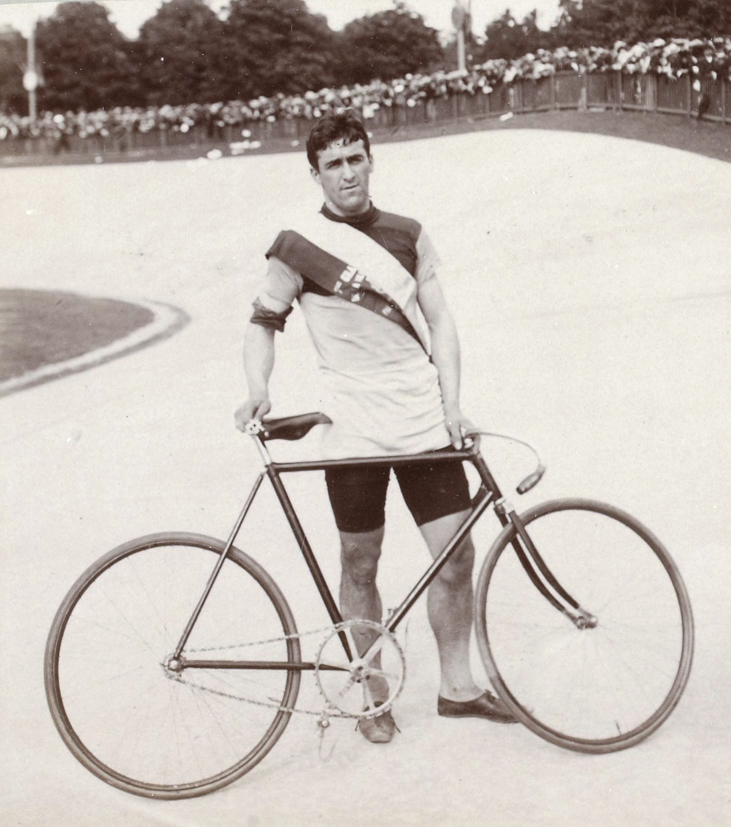 [Collection Jules Beau. Photographie sportive] : T. 13. Année 1900 / Jules Beau] File:Btv1b8433337w-p063.jpg (cropped)